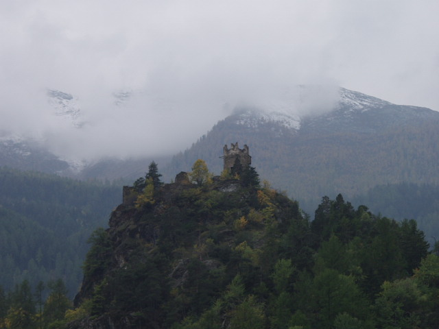 Ruins of Montmayeur Castle in Arvier - Aosta Valley (Italy)